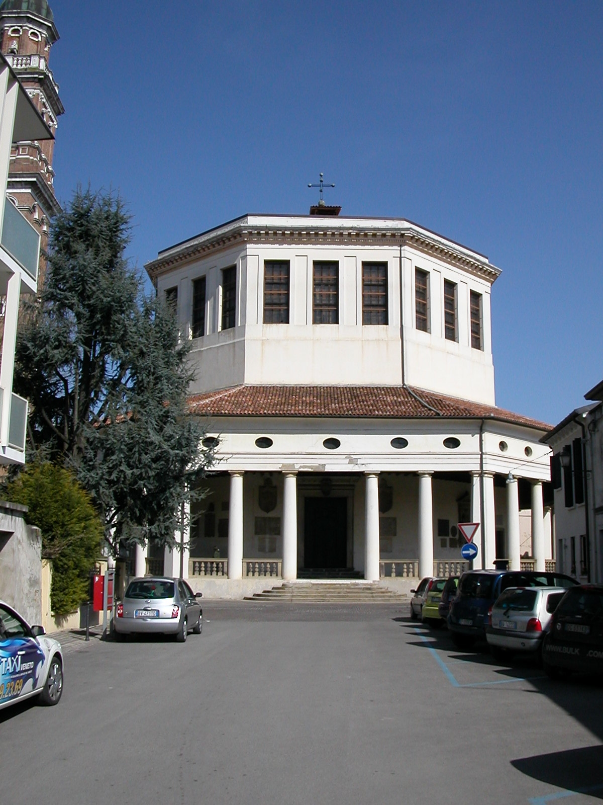 The ancient (and real) principal gate of Santa Maria del Soccorso Church in Rovigo.